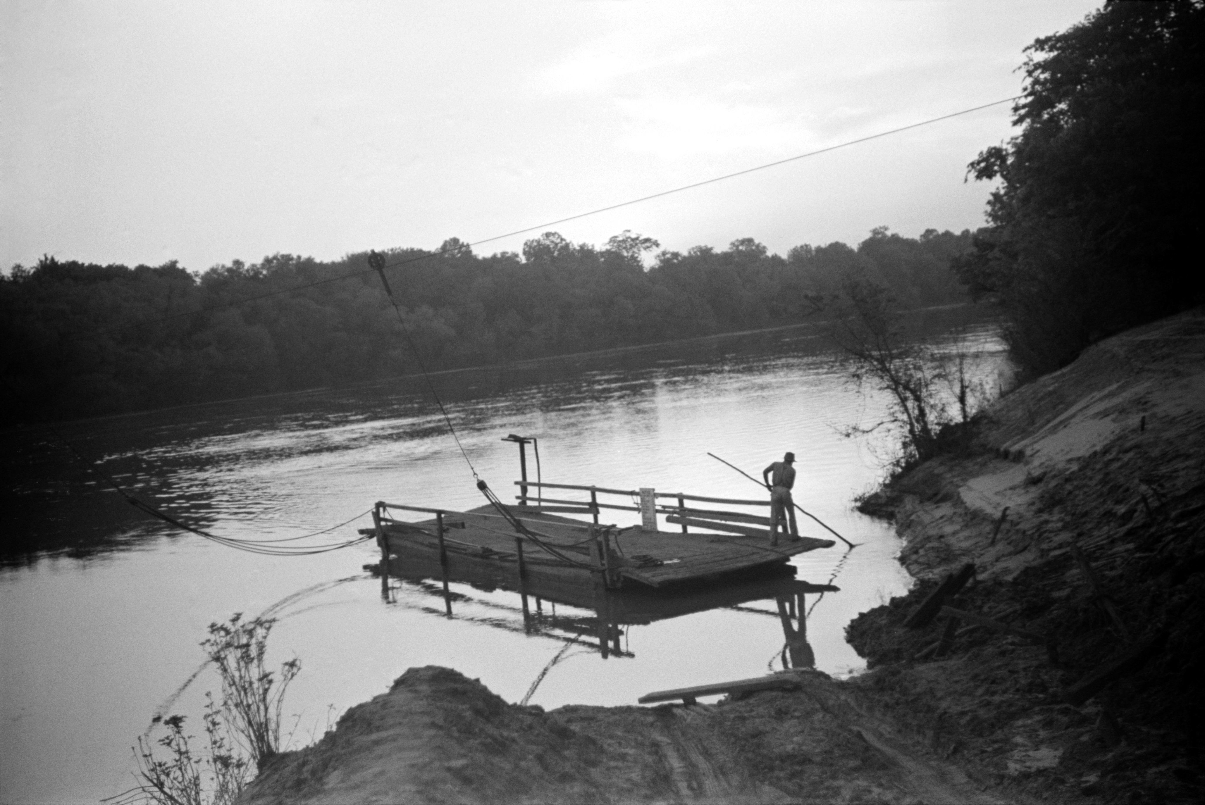 Old cable ferry between Camden and Gees Bend, Alabama, taken by Marion Post Wolcott for the Farm Security Administration.